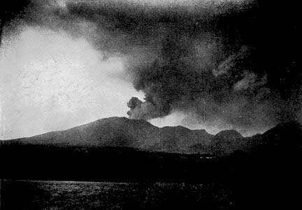 Mt. Pelee is famous for the May 8, 1902 eruption which killed 29,000 people and destroyed the city of St. Pierre. This is the largest number of casualties for a volcanic eruption during the 20th century.